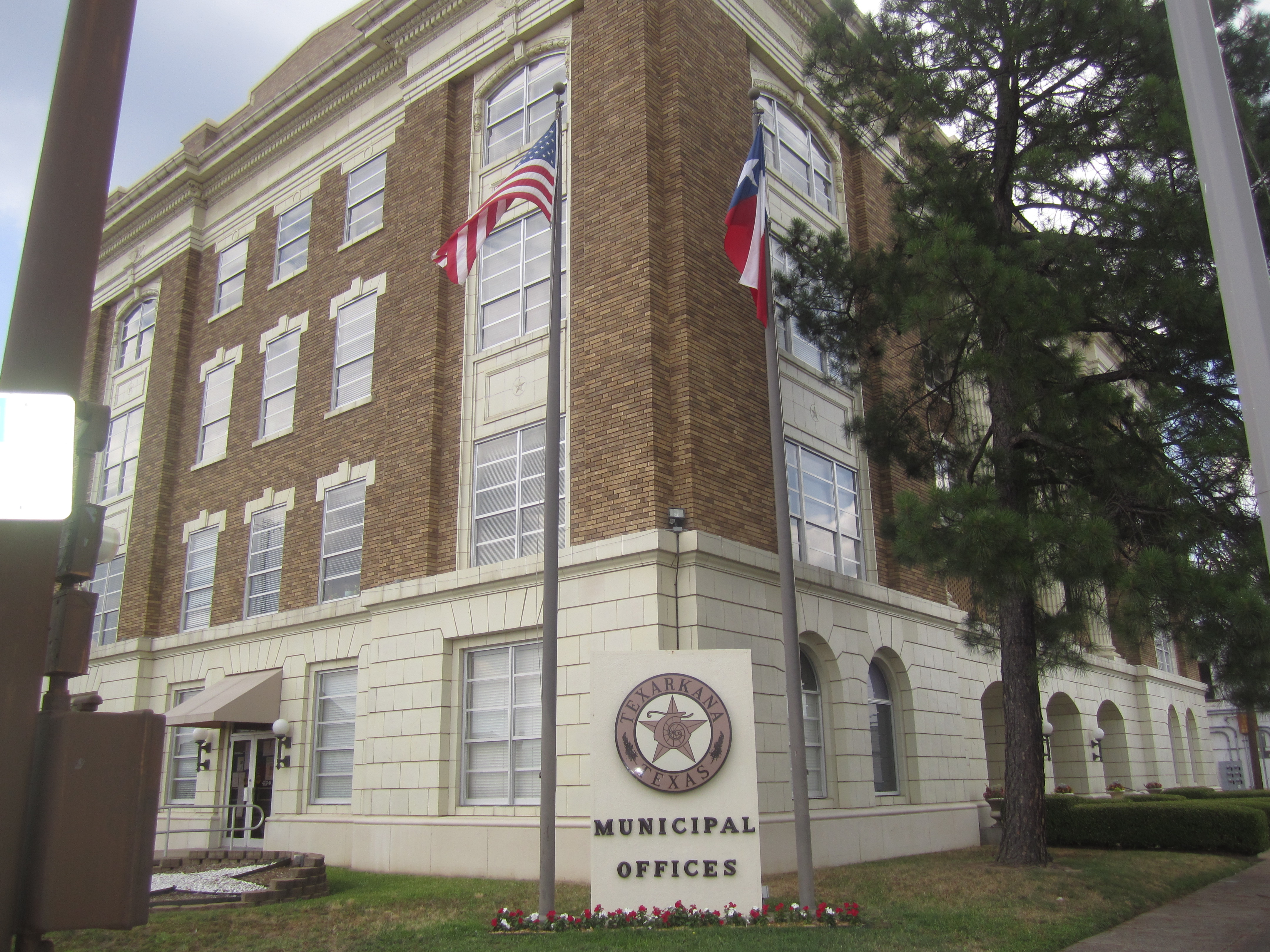 I took photo of municipal building in Texarkana, TX, with Canon camera on June 9, 2012.Billy Hathorn (talk) 23:22, 28 June 2012 (UTC)